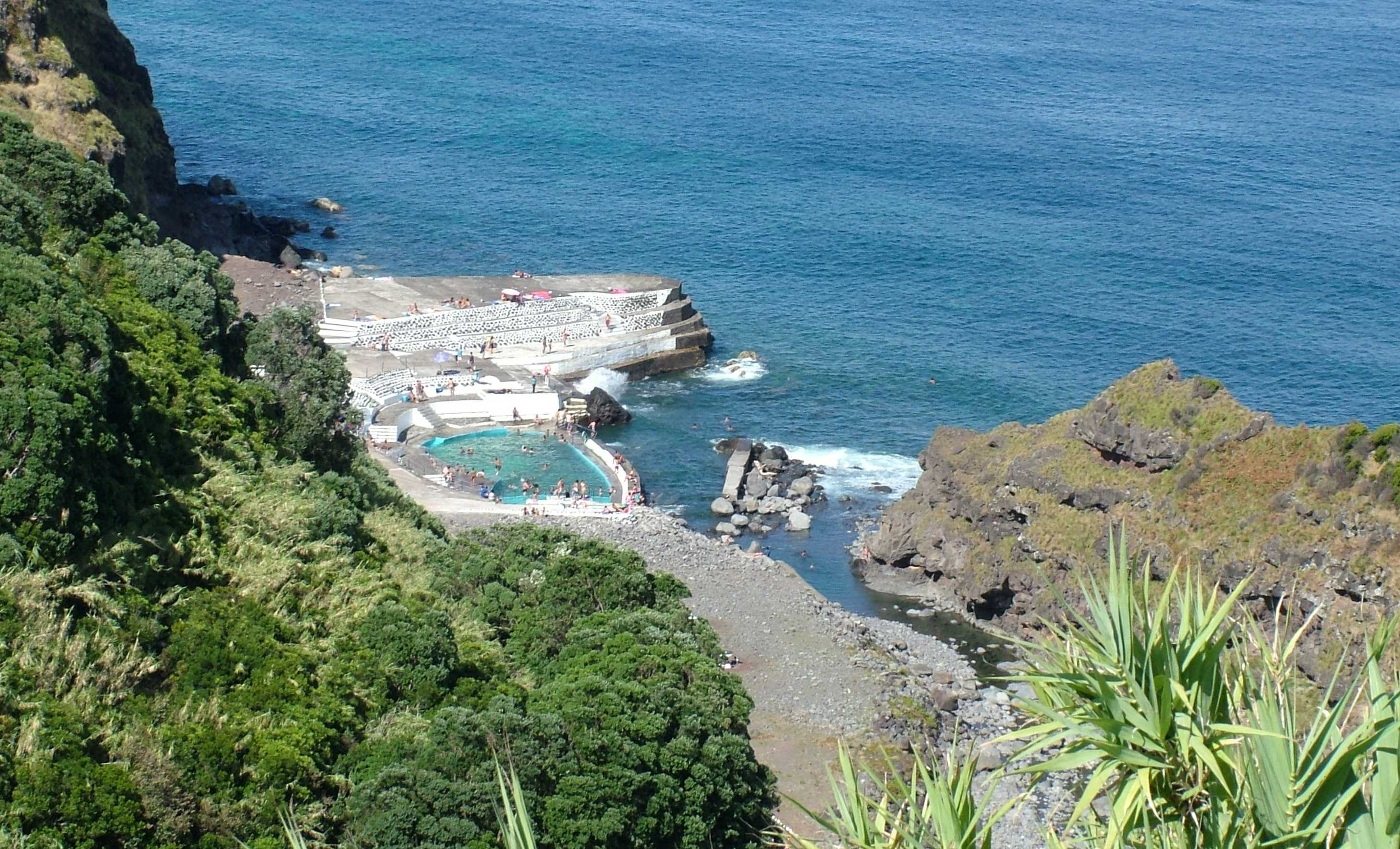 mouth of the stream